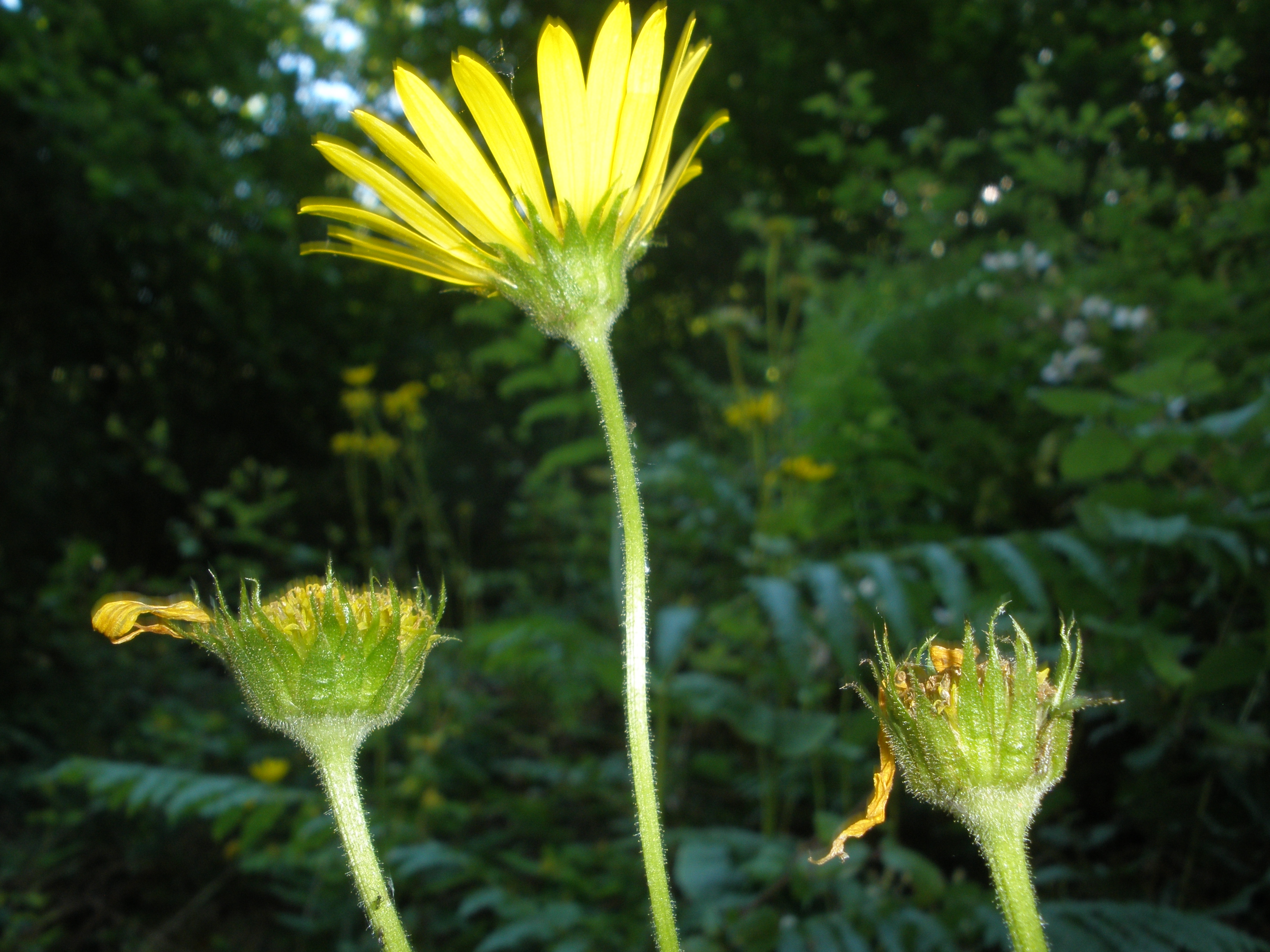 Doronicum carpetanum, Sunbilla, Nafarroa